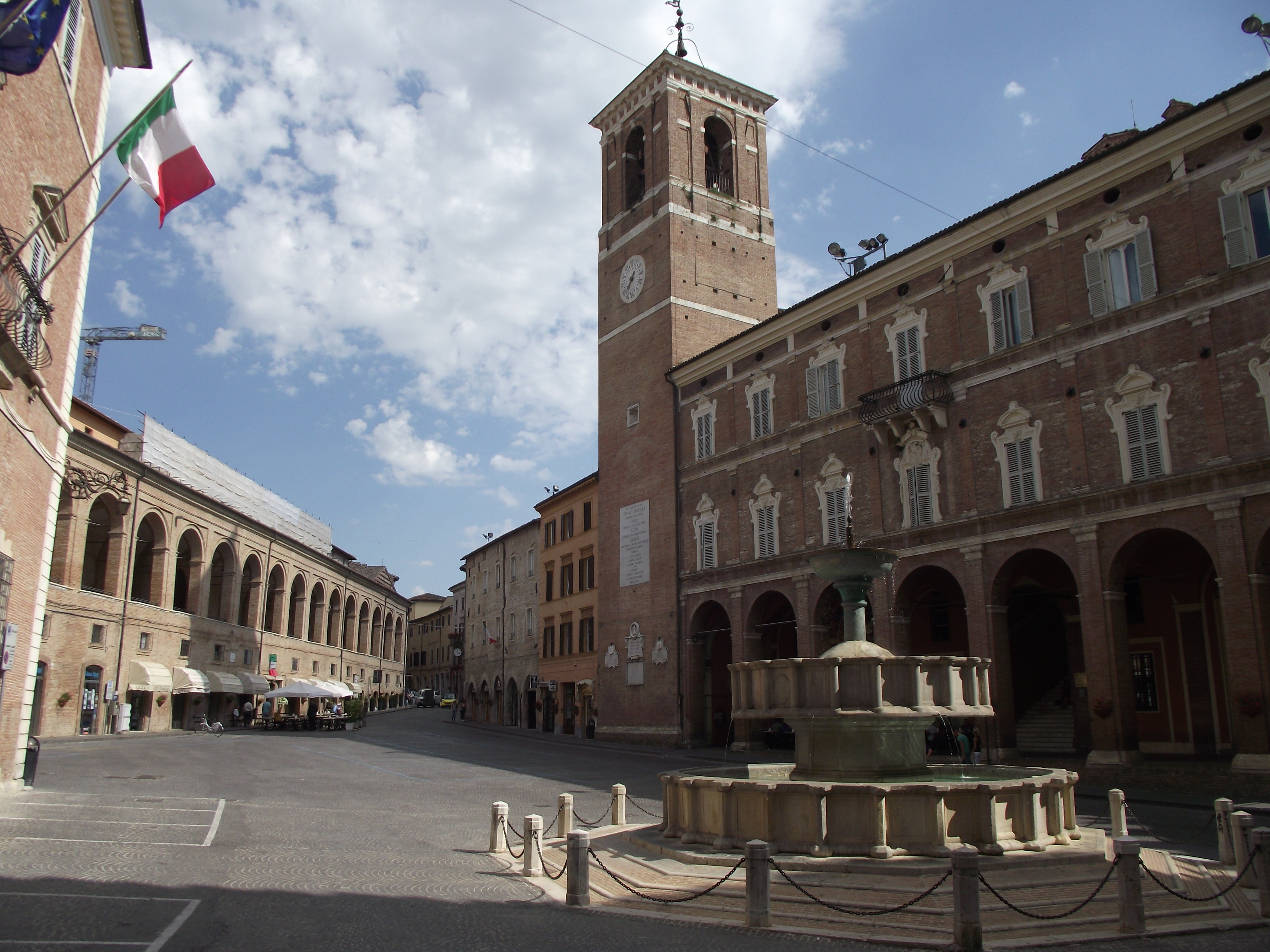 Town Hall Square, Fabriano - Italy